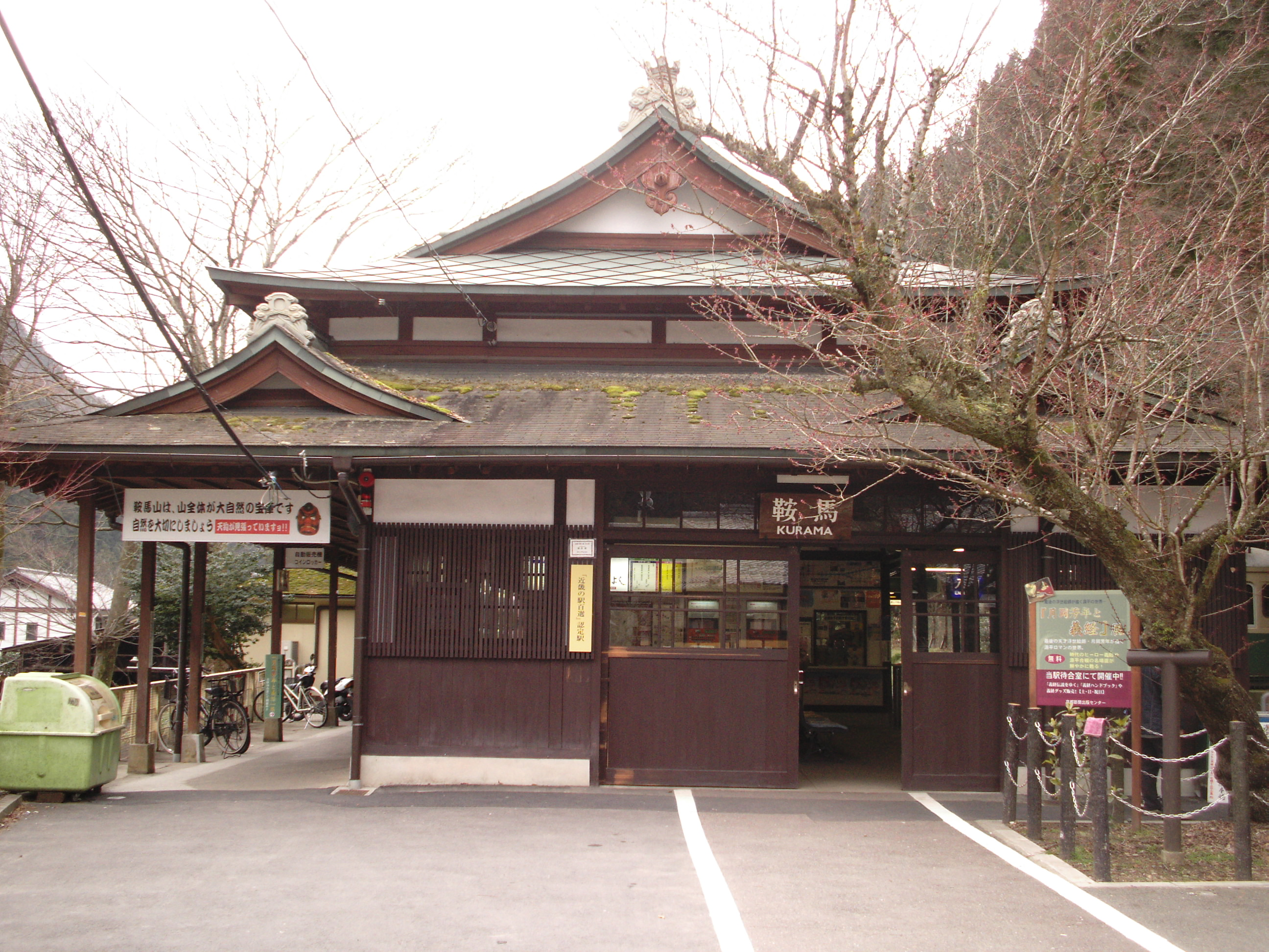 Kurama railway station in Sakyo-ku, Kyoto